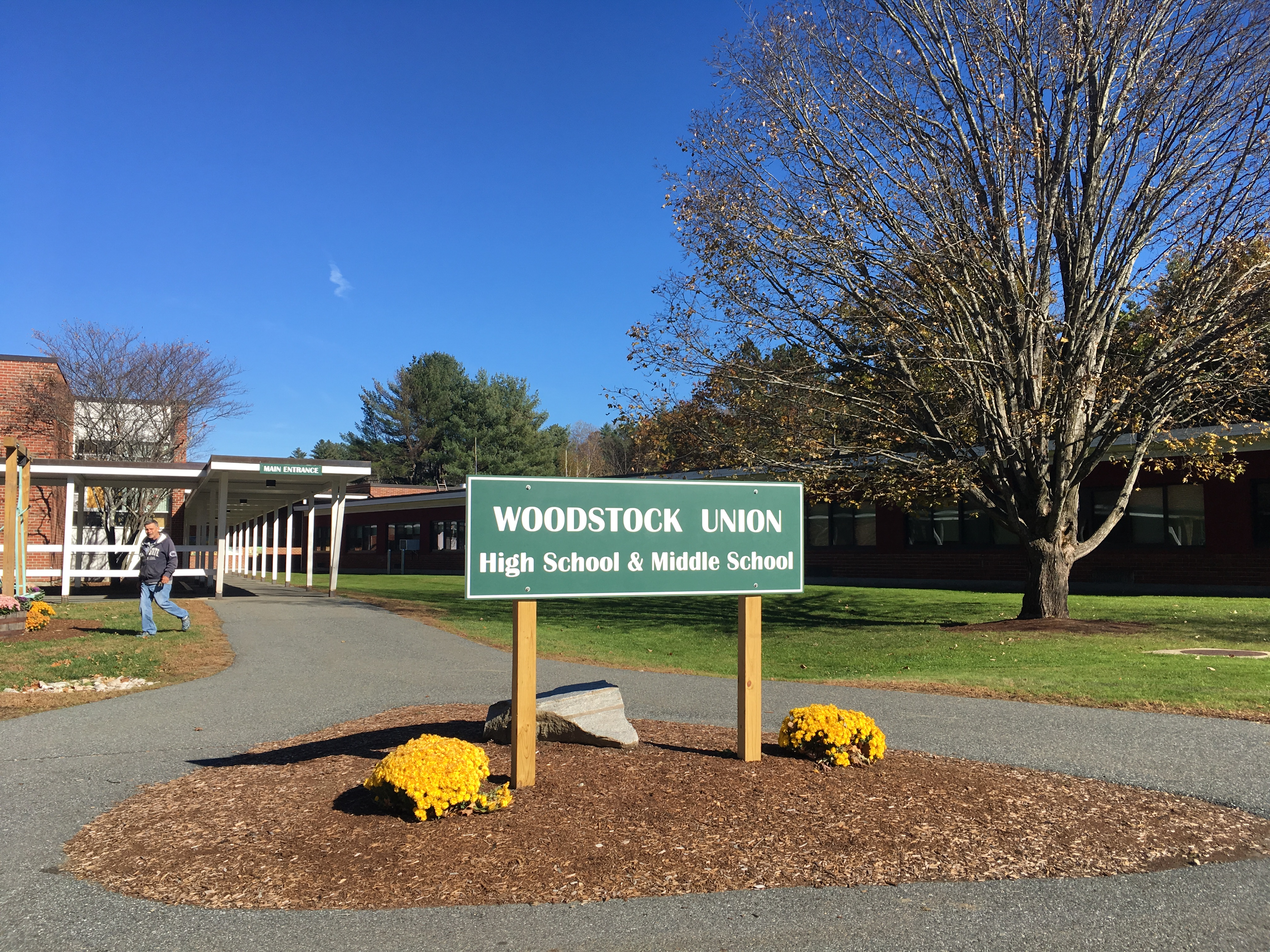 The main entrance to the school, located in Woodstock, Vermont, as seen on October 26, 2018.